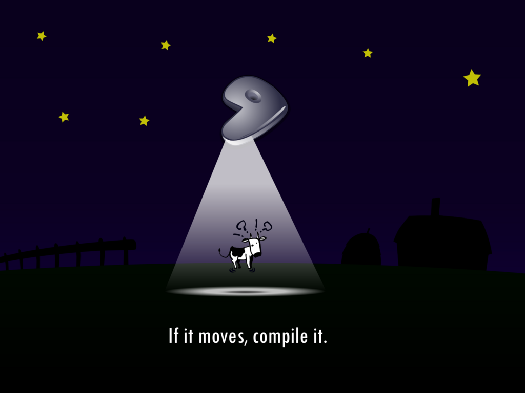 Larry the cow, a Gentoo Linux's mascot